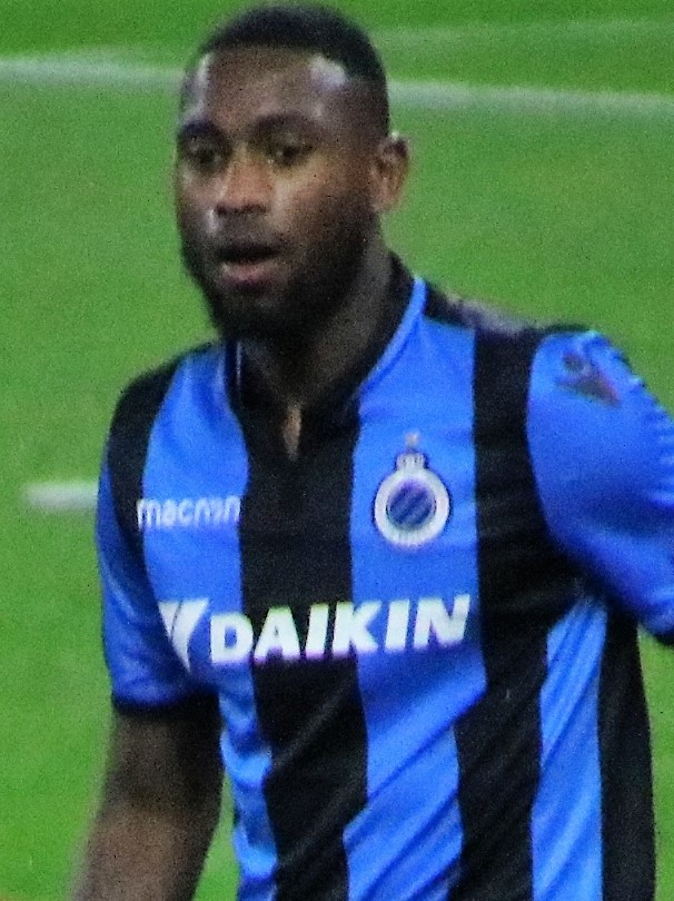 UEFA Euro League round of 32